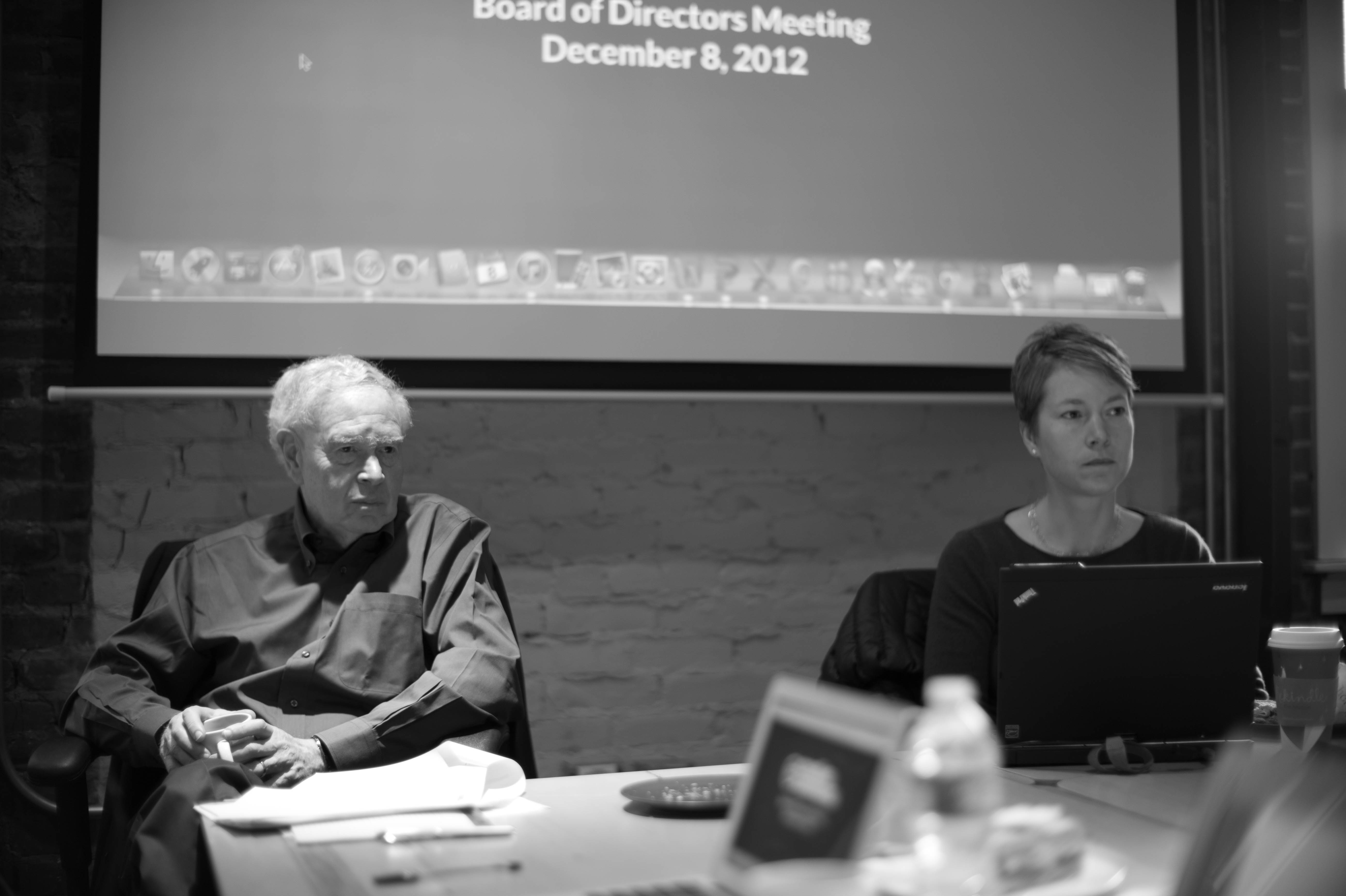 Paul Brest and Molly Van Houweling